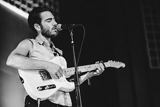 live performance at CMJ by Avi Jacob